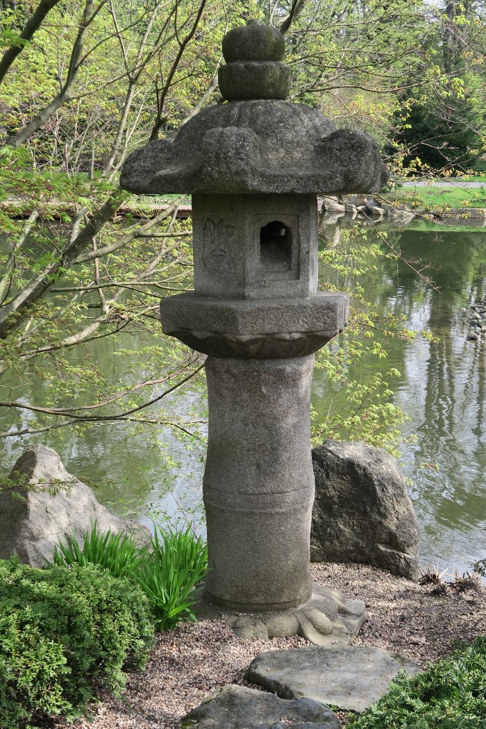 Stone latern, Japanese garden